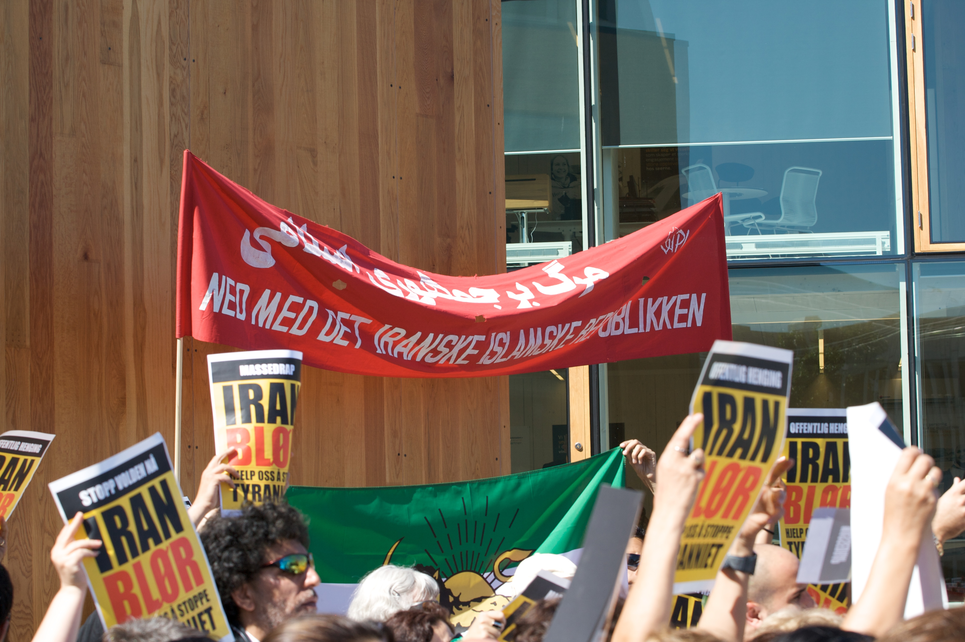 Iranian presidential election 2009 protests, Oslo.